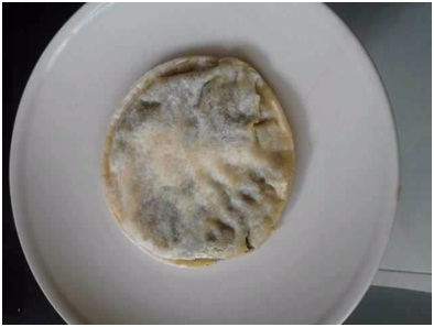 The past is made from chile poblano chile or green chile also called.